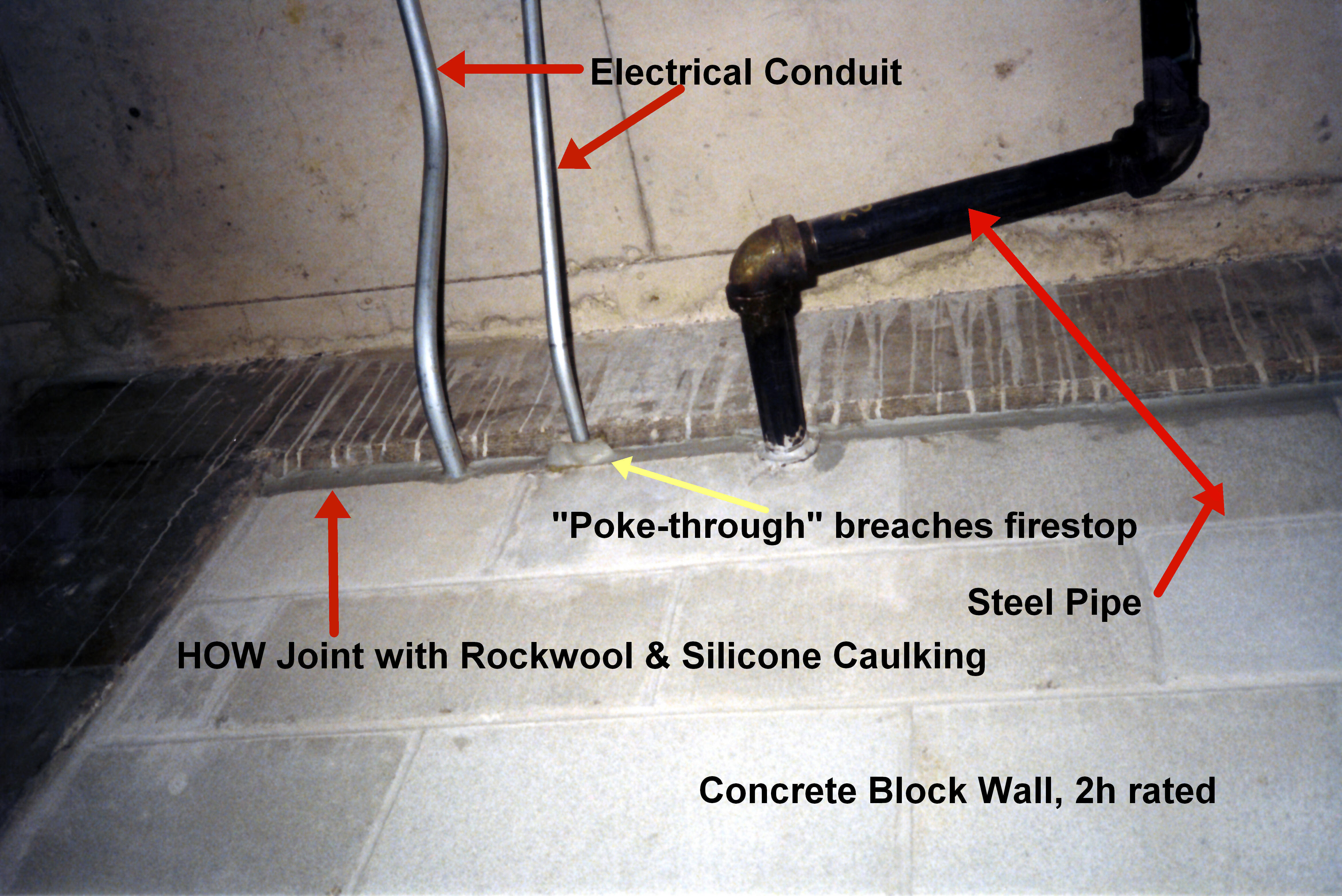 "HOW" (Head Of Wall) Building Joint: Concrete Masonry Unit Wall stopping short of the underside of a concrete slab above. The joint is penetrated both by electrical conduit (EMT = Electrical Metallic Tubing) and a steel pipe. Building joints are routinely penetrated by mechanical and electrical penetrants. For that reason, joint firestops that are also qualified to be used in mechanical, electrical and structural through-penetration firestop systems provide the best evidence of building code compliance because they have demonstrated the ability to cope with the heat that travels through to the unexposed side during an accidental or test fire exposure - without spontaneous ignition or degradation that would fail the hose-stream test or permit smoke migration.